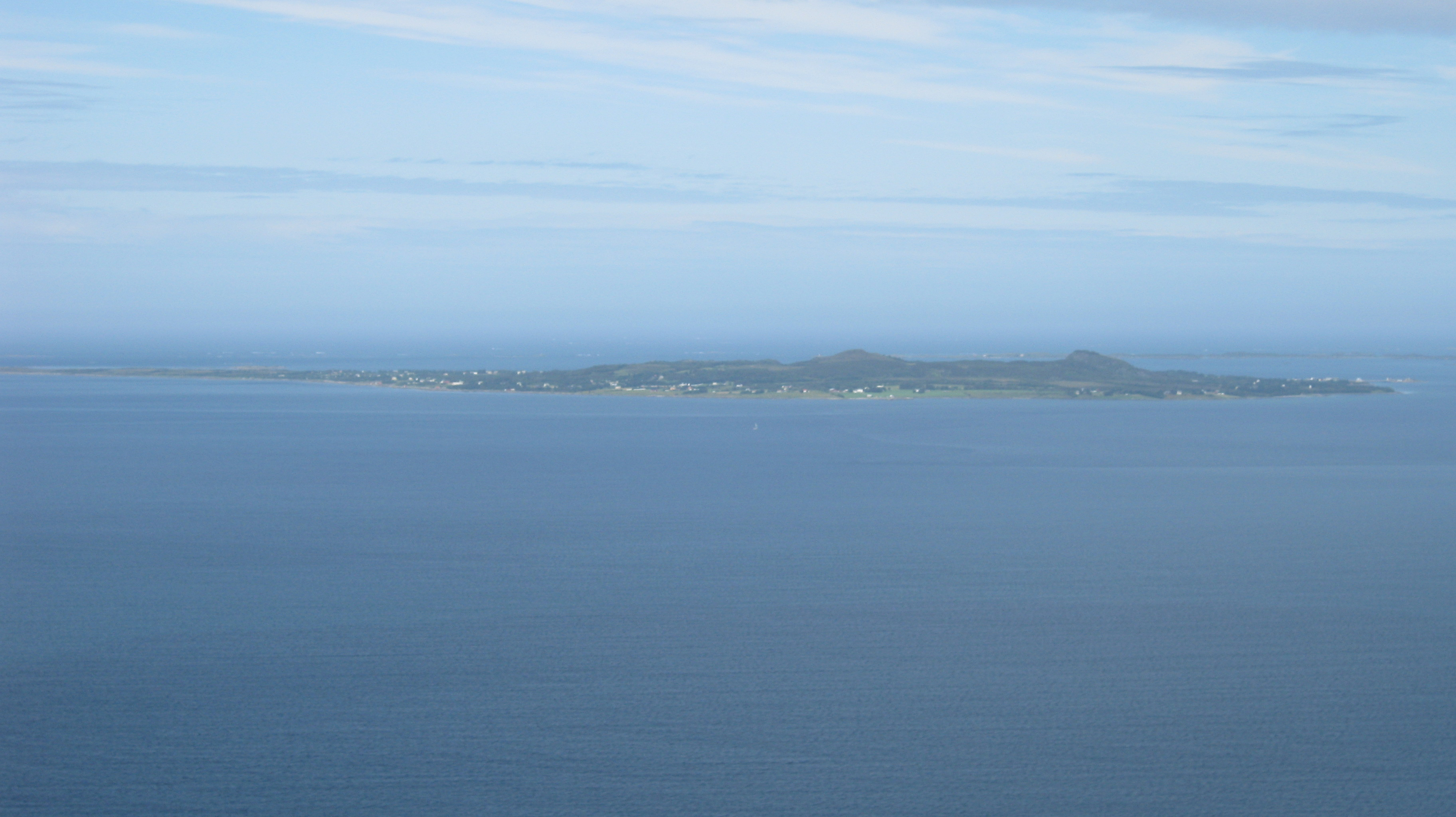 The island Fjørtoft in Haram, Møre og Romsdal county, Norway. Photo taken from the slopes of Mt. Hellandshornet, on the mainland